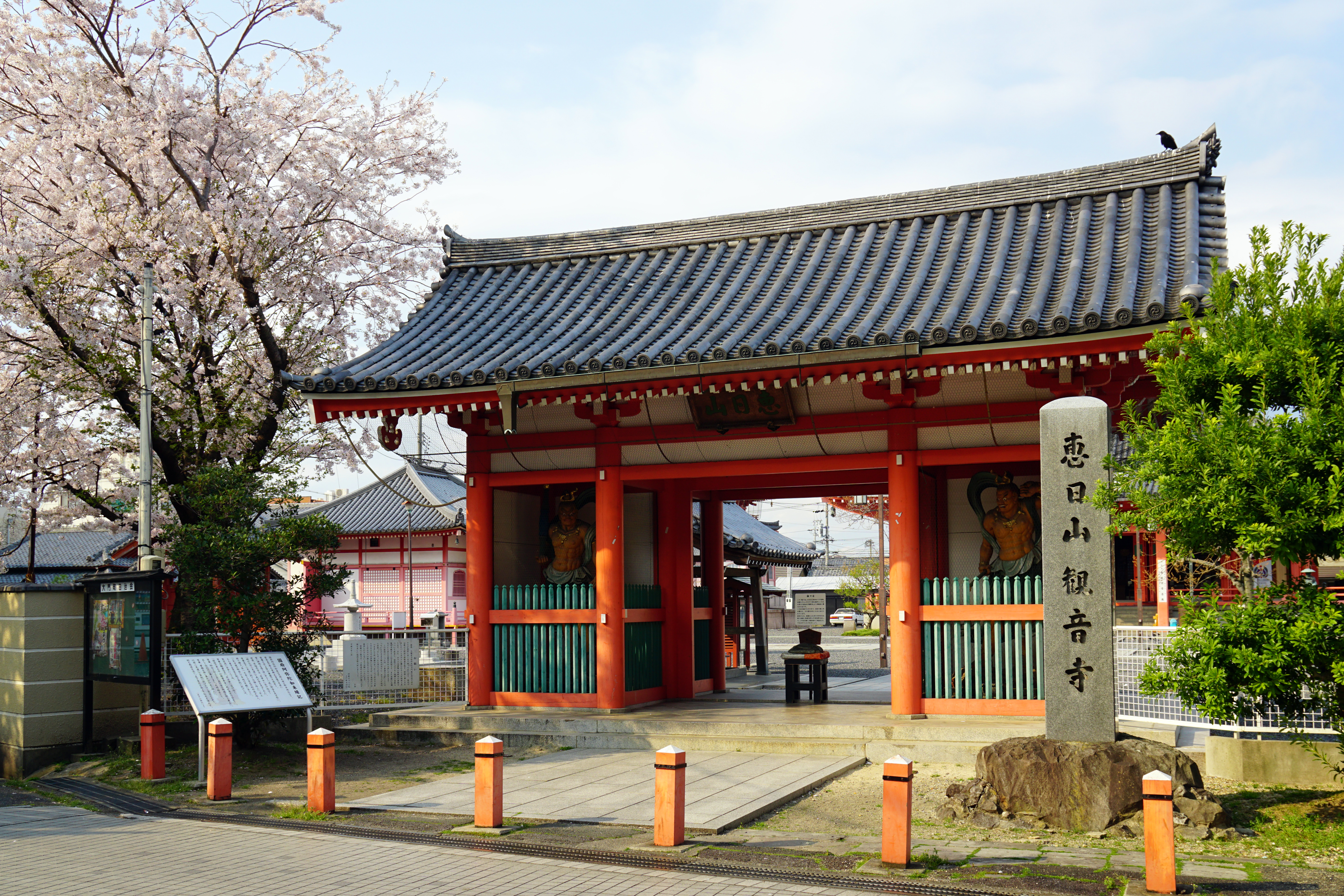 Tsu Kannon in Tsu, Mie prefecture, Japan.